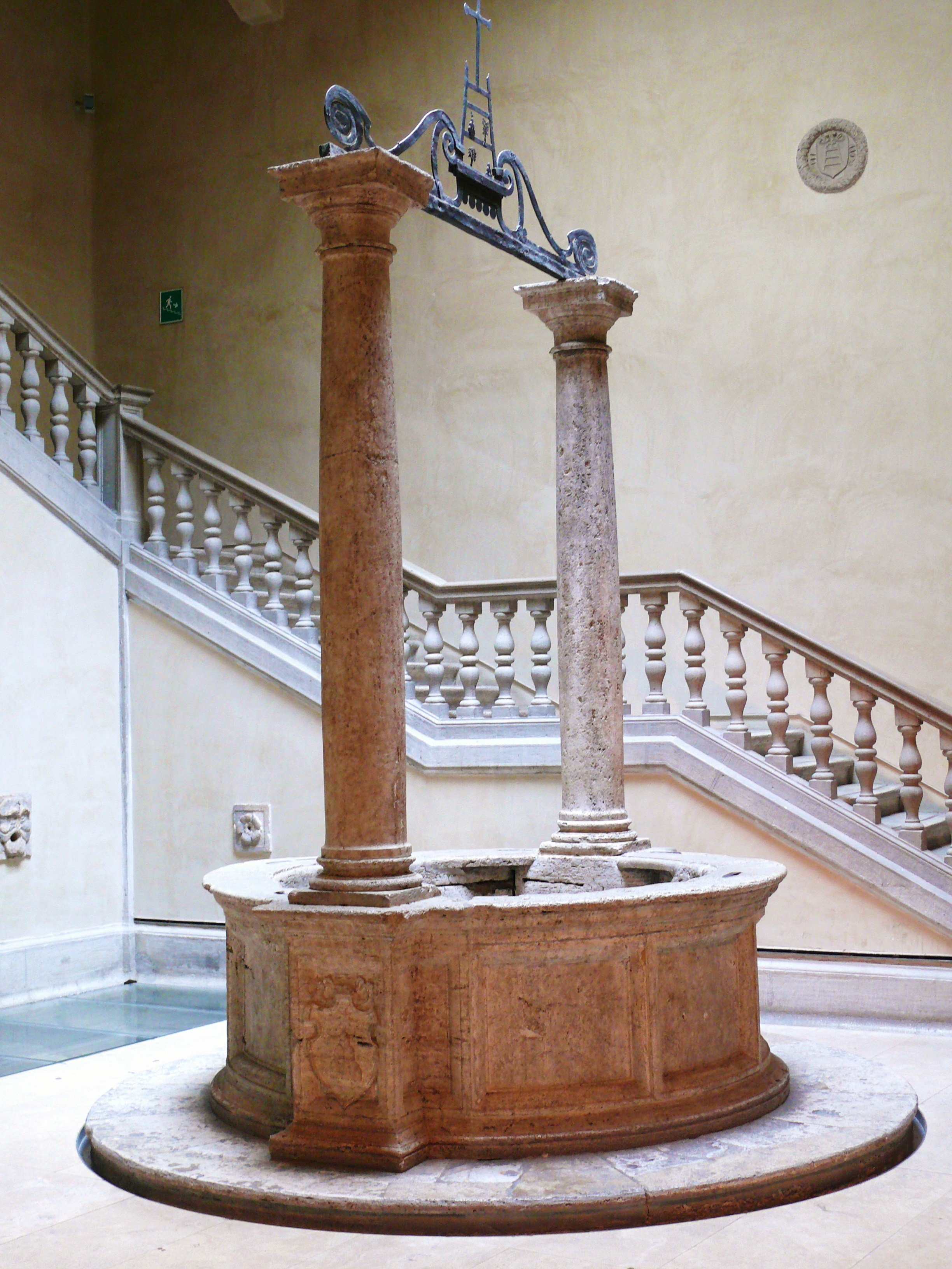 well in the old medieval hospital of Siena in Italy "Santa Maria della Scala"